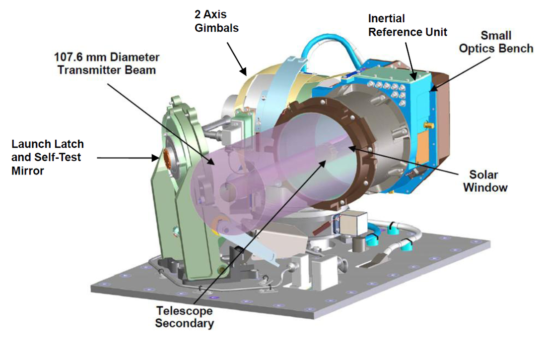 Image of the LLCD Optical Module onboard the LADEE spacecraft